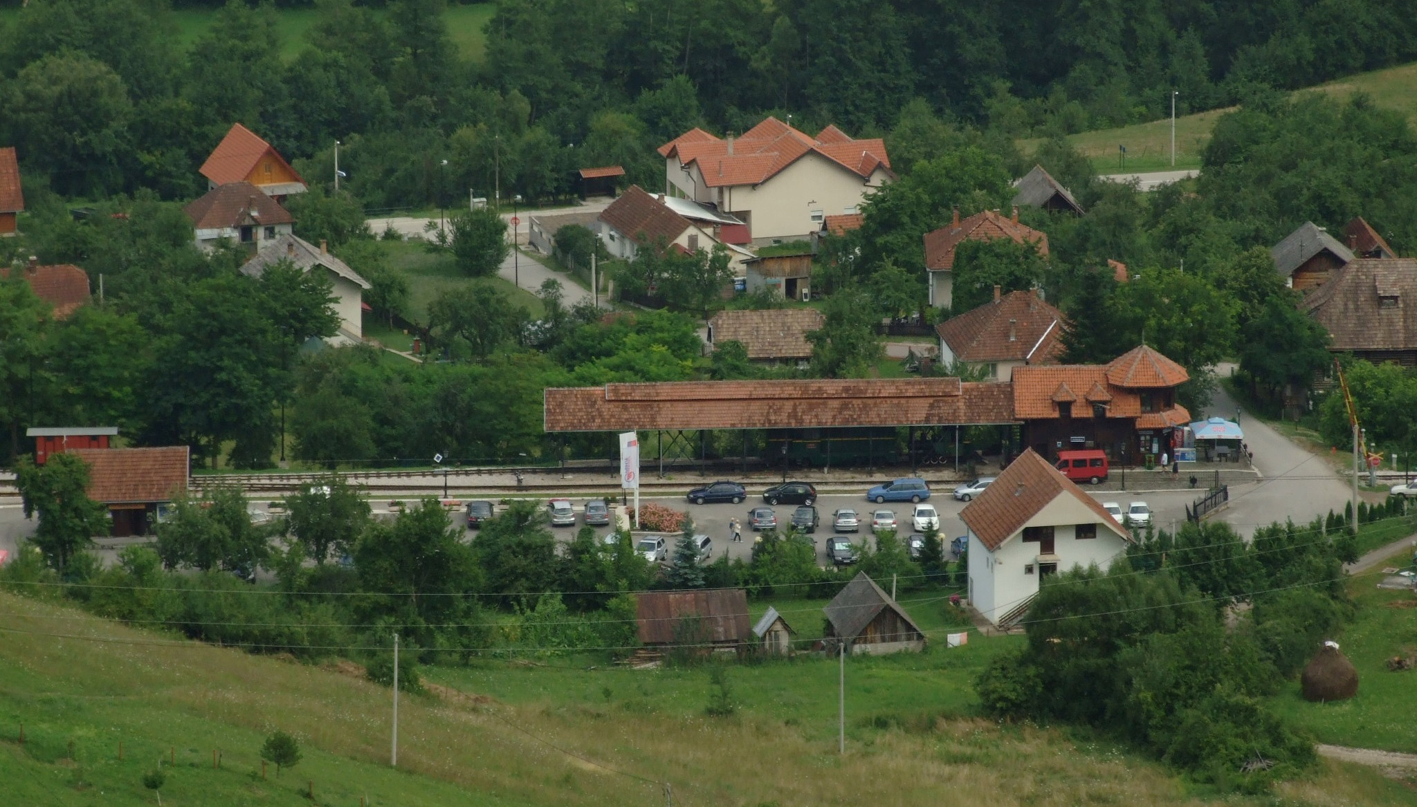 Mokra gora train station - Šarganska osmica track. This track is connecting Serbia with Bosnia and Herzegovina close to Užice, Serbia